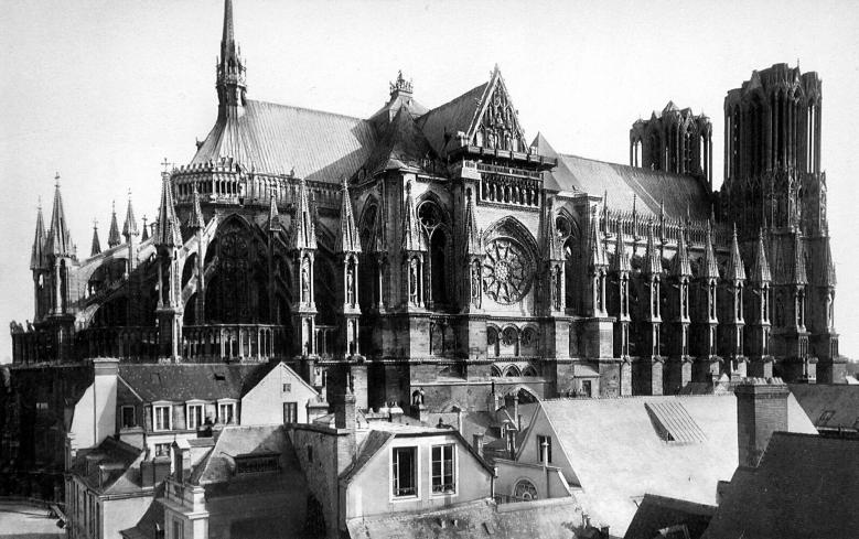 Reims Cathedral from North-east